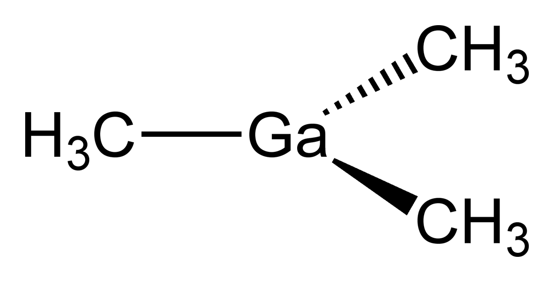 Structural formula of the trimethylgallium molecule, Ga(CH3)3